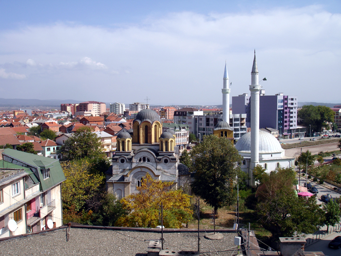 Church and mosque in the town of Uroševac, Kosovo.